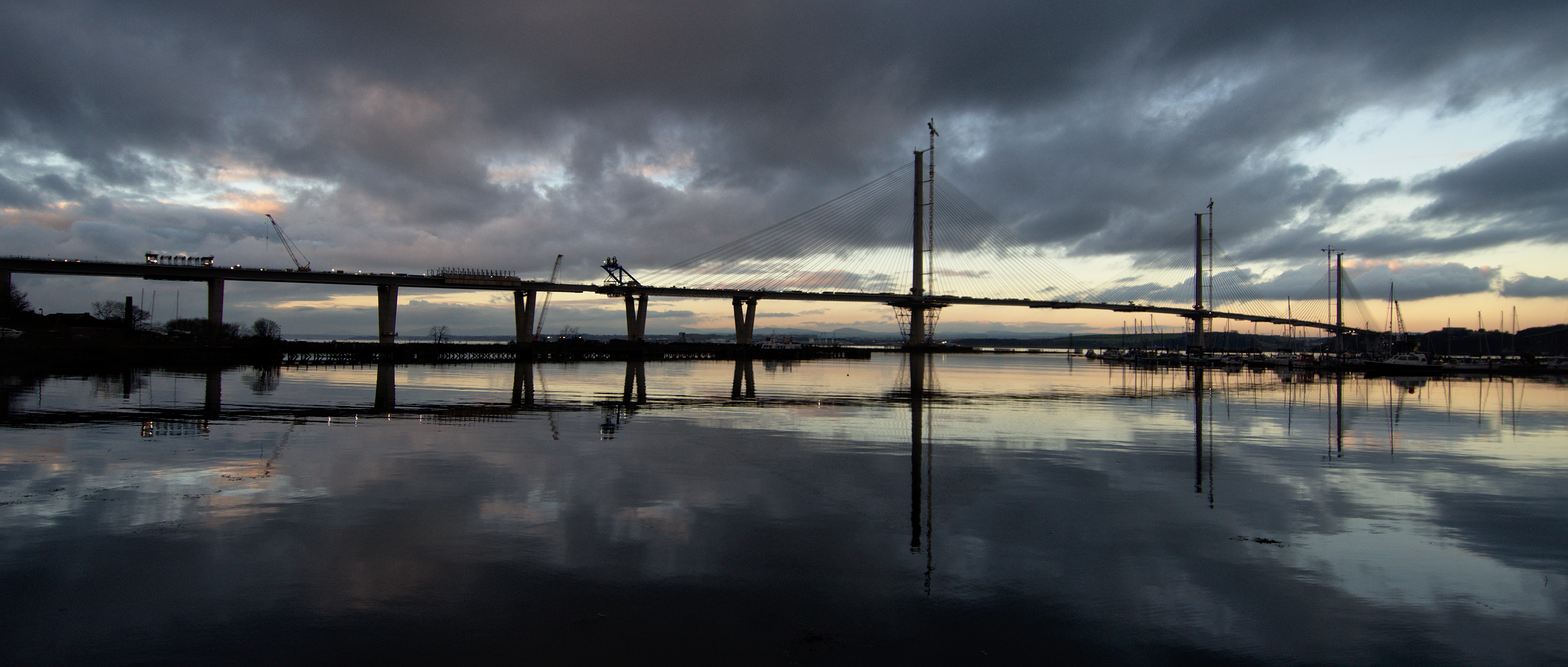 Queensferry Crossing